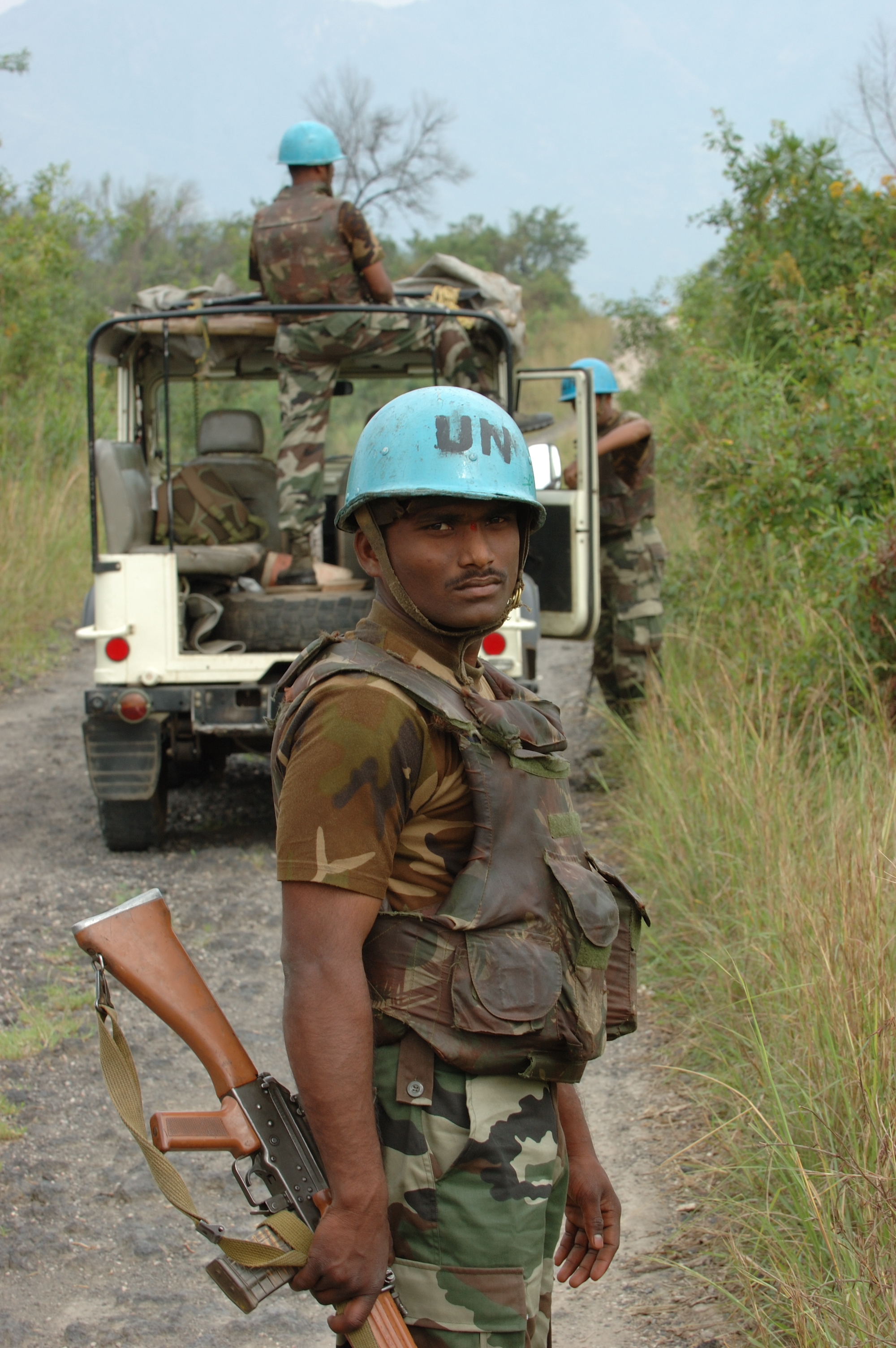 Julien Harneis:To reach Tongo we are required by UN security to take a UN military escort. We were escorted by two jeeps and a truck from the Madras Regiment, Indian Army. The journey that should take thirty minutes took an hour and a half because of the pace of the military. Twice we passed cars of international NGOs speeding along without escort. Arriving in a village surrounded by men with guns is an uncomfortable feeling. Julien Harneis:I take it back, 3 days after this photo was taken one of our NGO partners car on the same road was stopped by armed men in uniform and the contents of their car was looted. UN escort not such a bad idea after all.